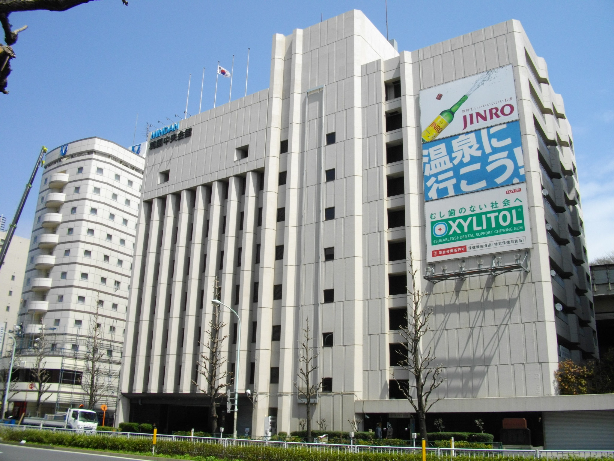 Mindan Central Headquarters